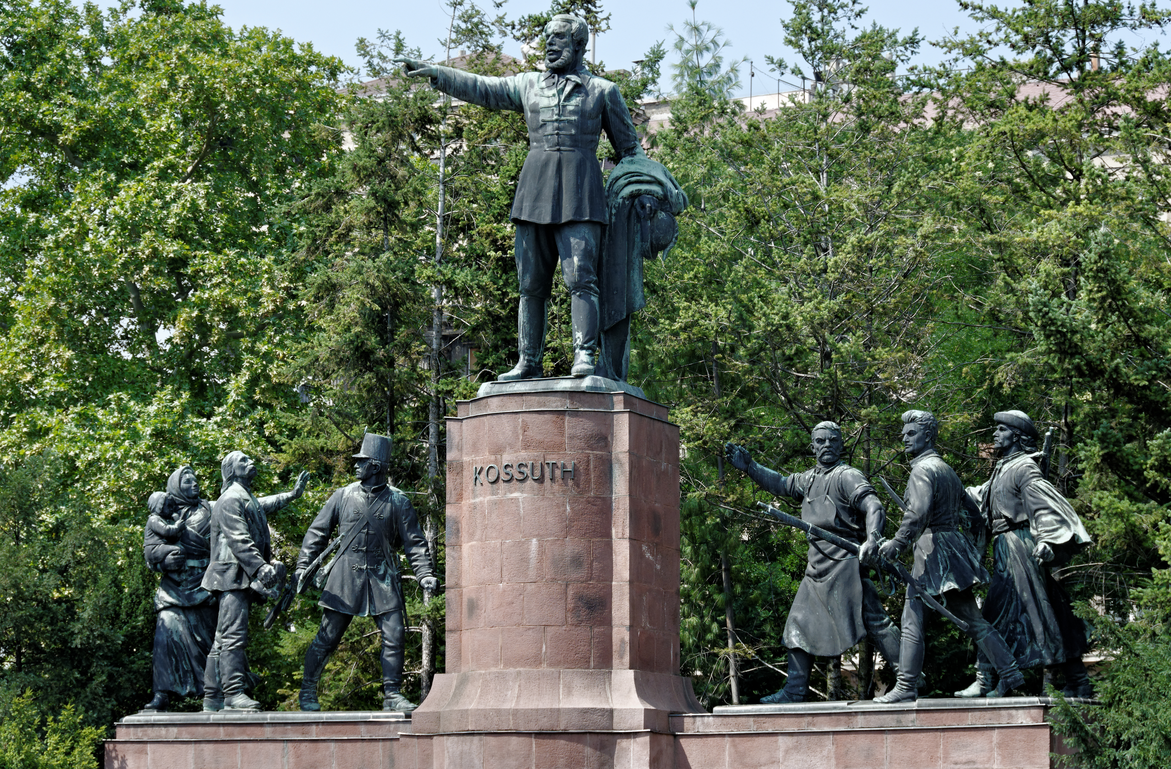 The Monument of Lajos Kossuth, Budapest, Hungary